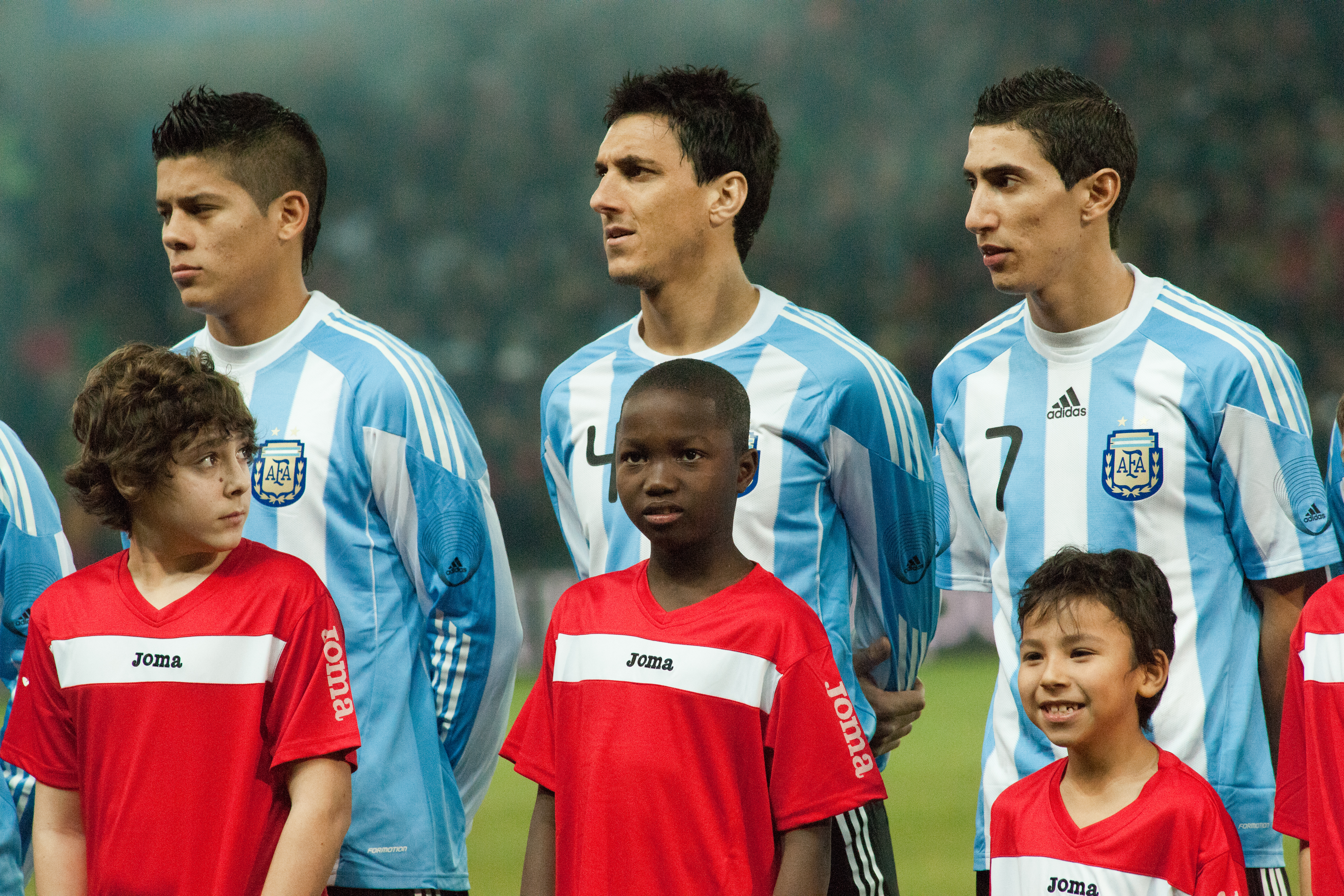 Marcos Rojo (left), Nicolás Burdisso (middle), Angel di Maria (right).